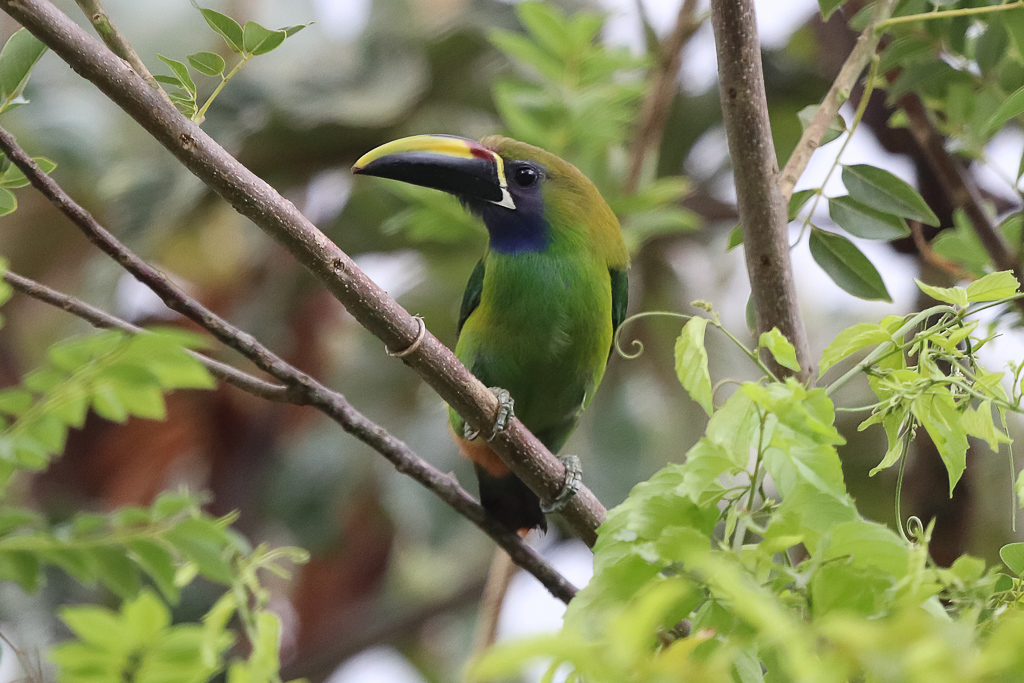 Blue-throated toucanet Monteverde Costa Rica 2017